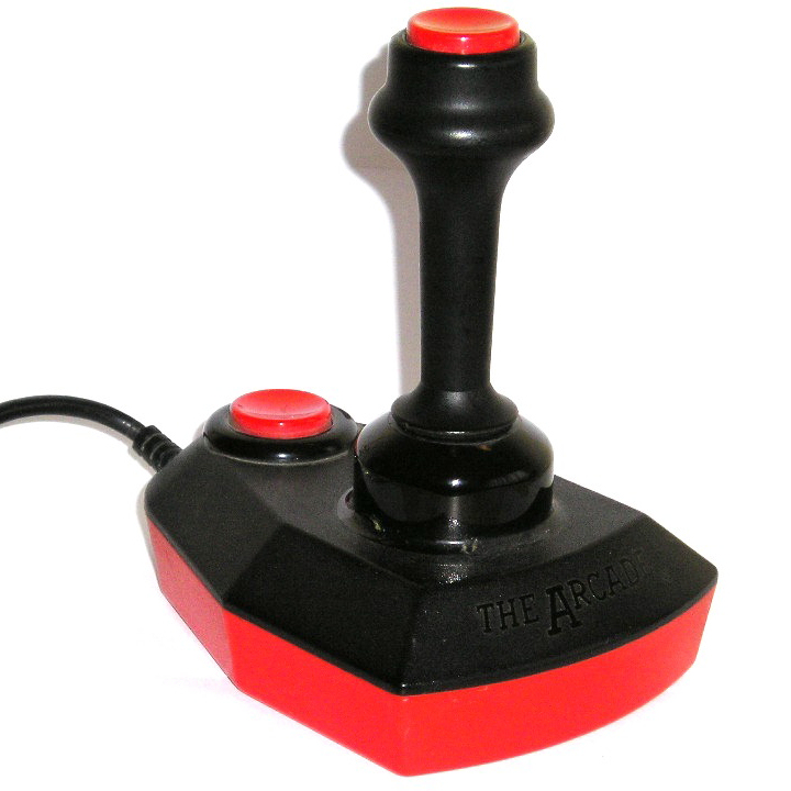 Suzo International digital joystick, model The Arcade Turbo